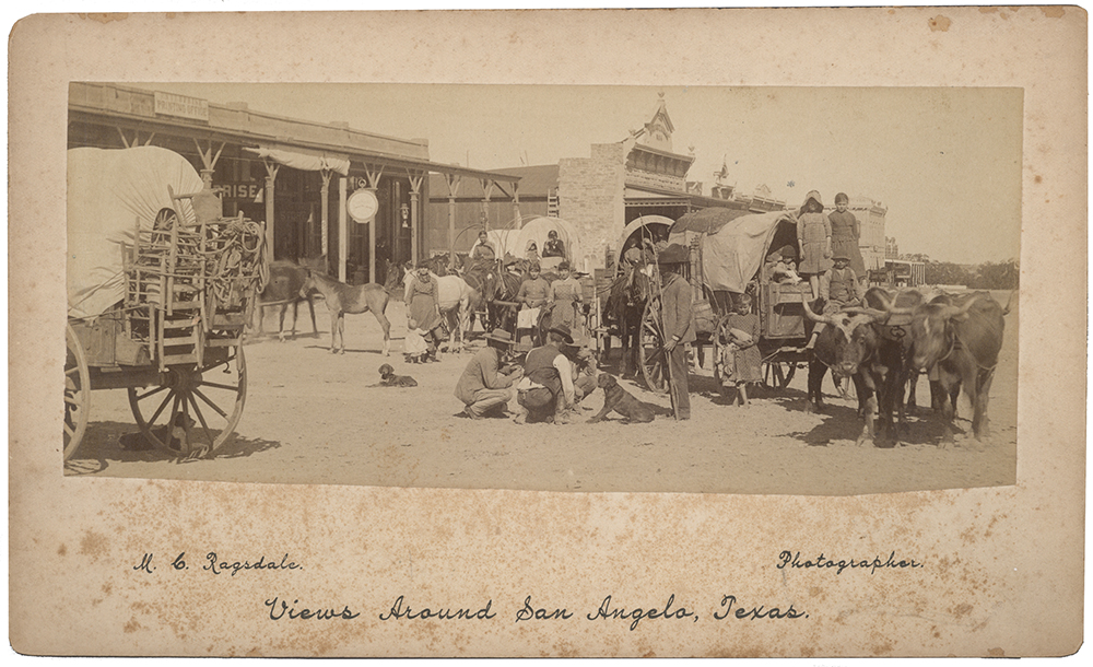 Title: [Immigrants going through San Angelo, Texas] Creator: M. C. Ragsdale, Photographer Date: ca. 1885-1890 Part Of: Lawrence T. Jones III Texas photography collection Physical Description: 1 photographic print: albumen; 10.2 x 22.9 cm on 15.2 x 25.4 mount File: ag2008_0005_4_4_2_04_r_immigrants_opt.jpg Rights: Please cite DeGolyer Library, Southern Methodist University when using this file. A high-resolution version of this file may be obtained for a fee. For details see the web page. For other information, . For more information, View the Lawrence T. Jones III Texas Photographs at